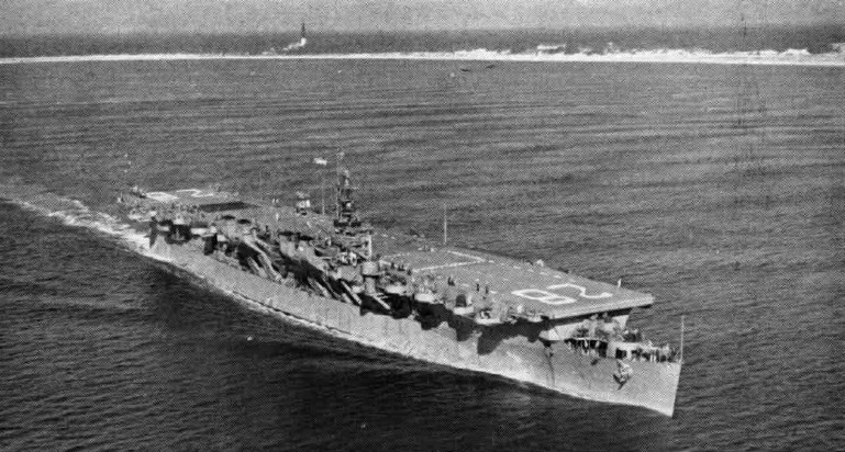 The U.S. light aircraft carrier USS Cabot (CVL-28) operating as a training carrier in 1949. The ship is passing Fort Barrancas, Florida (USA).